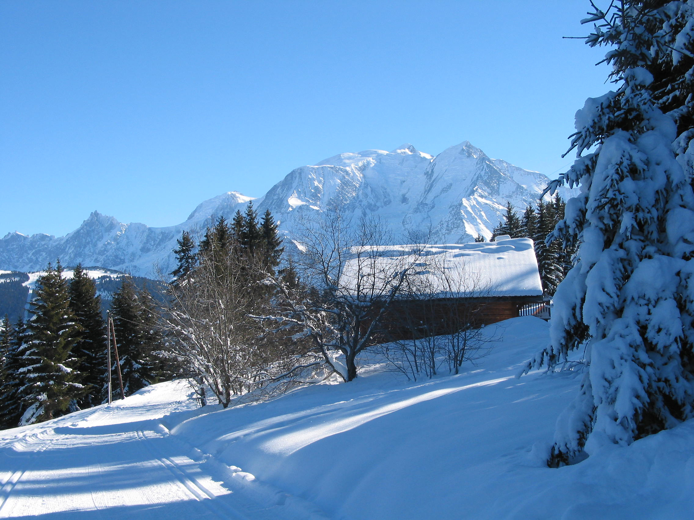 Saint-Gervais-les-Bains (Haute-Savoie - France), the Mont Blanc massif viewed from the lieu-dit place of the "Pierre Platte".